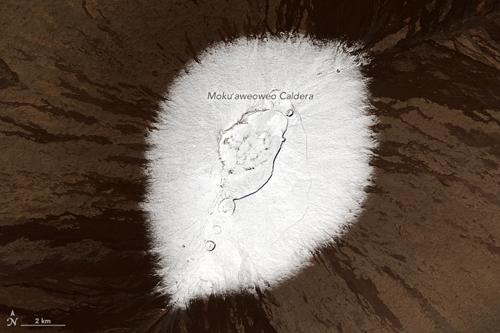 Snow may not be the first thing that comes to mind when you think of the Hawaiian Islands. But nearly every year, the peaks of Mauna Kea and Mauna Loa volcanoes are temporarily dusted with white. Satellites captured such events in 2014, 2015, and most recently in December 2016, pictured here. The Operational Land Imager (OLI) on the Landsat 8 satellite captured these natural-color images of the snowy peaks on December 25, 2016. A storm on December 18 brought not only snow, but bouts of thunder and lightning. While snow in Hawaii is not unusual (it can even fall in summer), thundersnow is less common. The storm was reportedly associated with a Kona low. This low-pressure system brought a change in wind direction, such that winds that typically blow out of the northeast shifted to blow from the southwest. The winds from the leeward or “Kona” side drew moisture from the warm, tropical Pacific that ultimately fell as snow over the high elevations. Detailed views give a closer look at the snowy summits. Mauna Kea rises to 4,205 meters (35 meters higher than Mauna Loa). It is one of Hawaii’s older, dormant volcanoes, with steep, irregular terrain marked with numerous cones. Mauna Loa, in contrast, is relatively active and topped with three circular depressions that compose the Moku‘aweoweo caldera. Mauna Loa is less steep, with gentle slopes that block the view of its snowcapped summit from sea level. Satellites offer views of both summits. Natural-color visible imagery from satellites, however, can be obscured by the presence of clouds. That was the case earlier in December when a storm was reported to have dropped more than 60 centimeters (2 feet) of snow on the peaks.